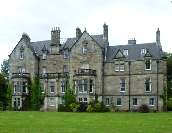 Pitreavie Castle from the grounds